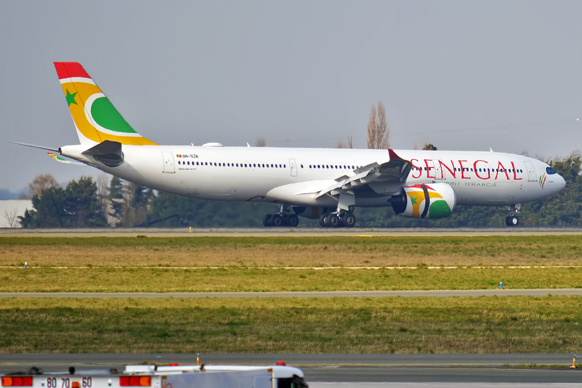 Air Senegal, 9H-SZN, Airbus A330-941 HC403